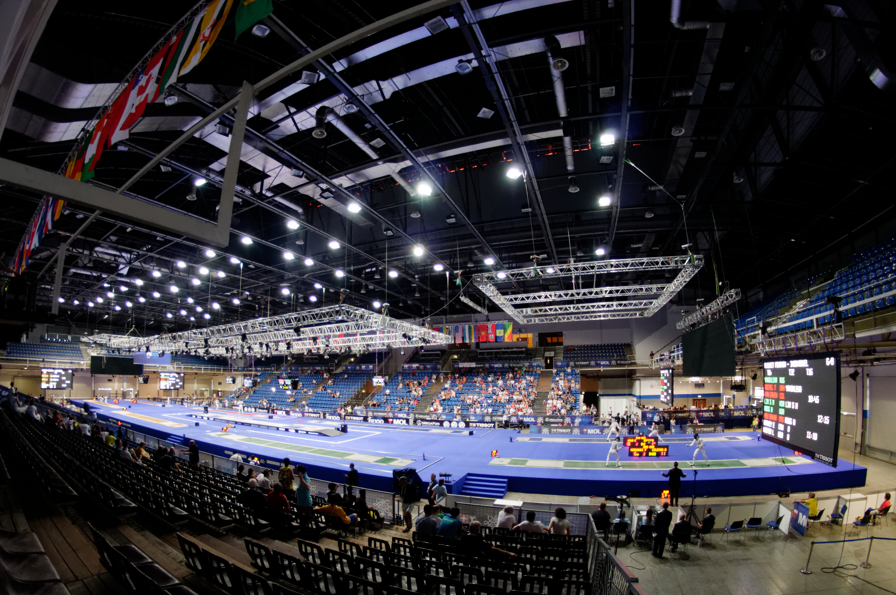 Pistes of Hall A during the women's foil round of 64 in the 2013 World Fencing Championships 2013 at Syma Hall in Budapest, 7 August 2013.